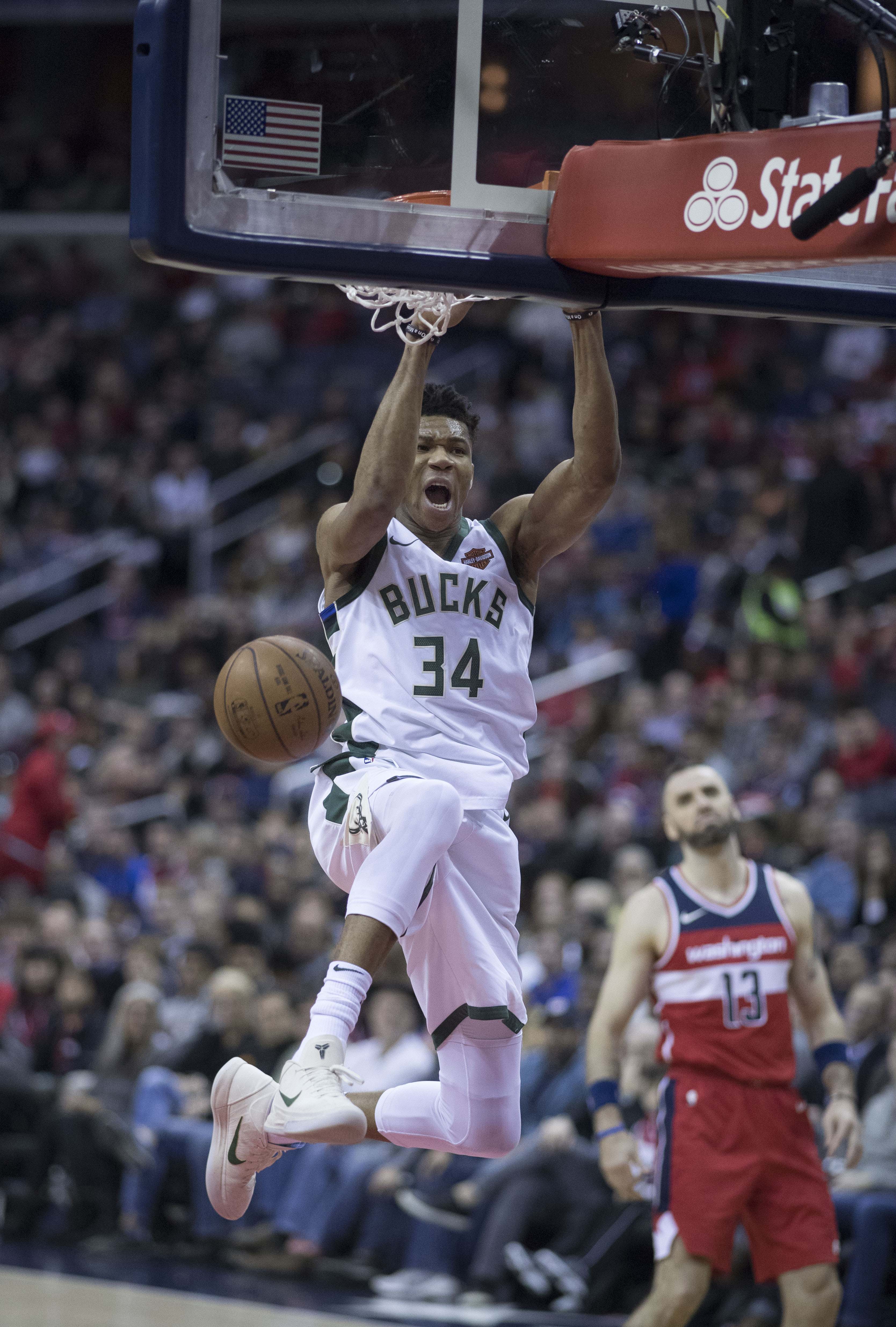 Giannis Antetokounmpo of the Milwaukee Bucks dunks the ball during the game against the Washington Wizards on January 15, 2018 at Capital One Arena in Washington, DC.